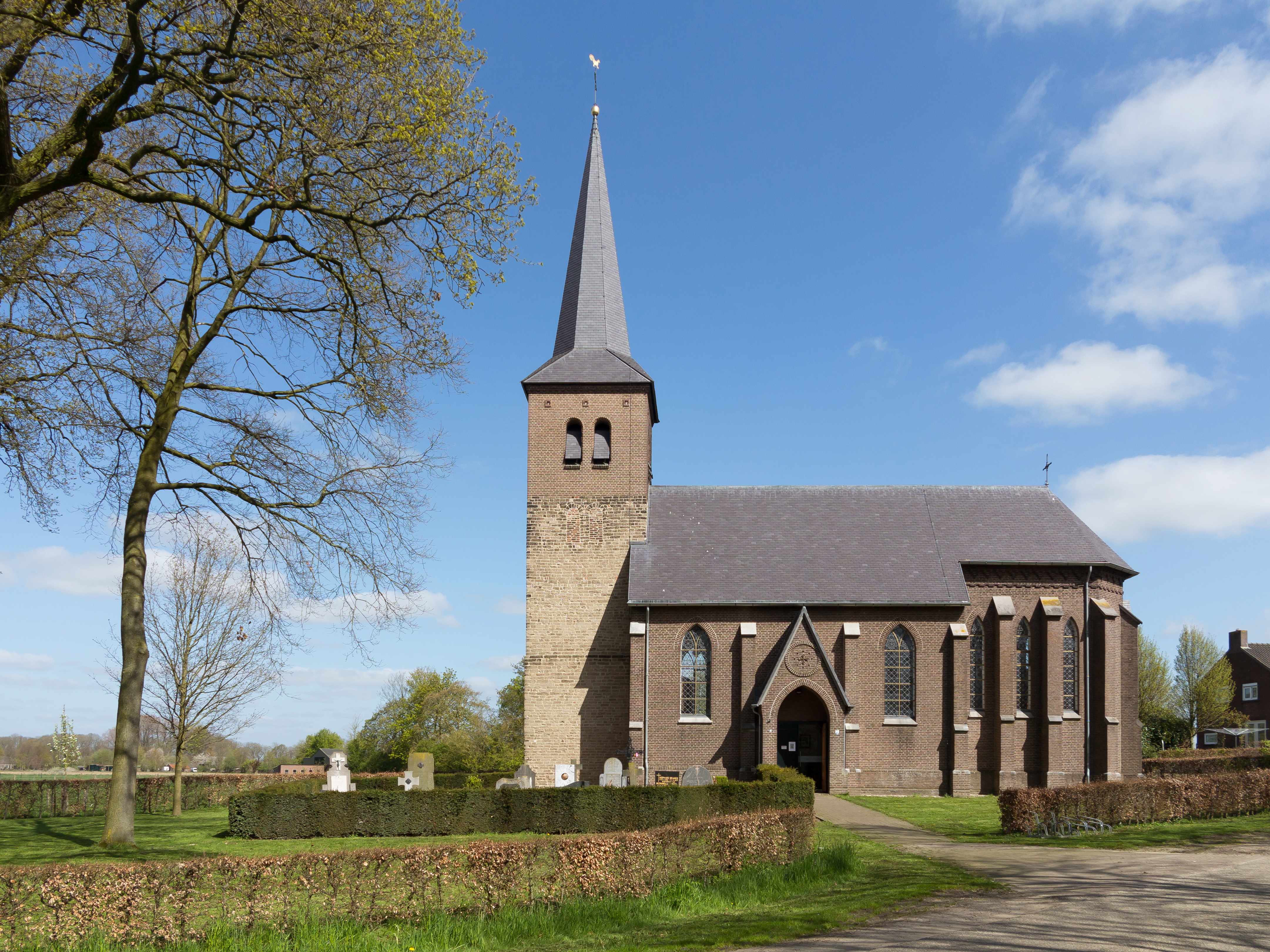 Neerlangel, church: de kerk van Sint-Jan de Doper